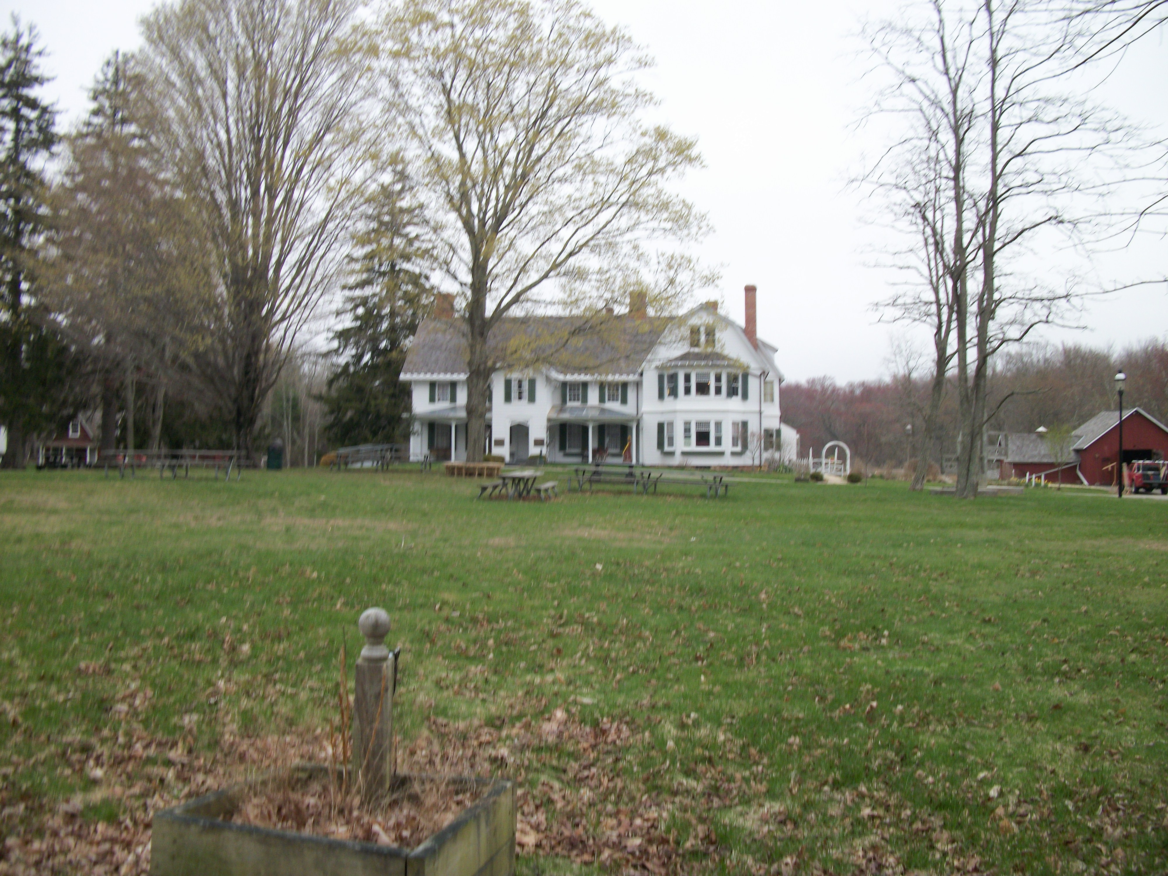 The Longwood Estate - Smith House in Ridge, New York, which is actually pretty close to Upton, New York.